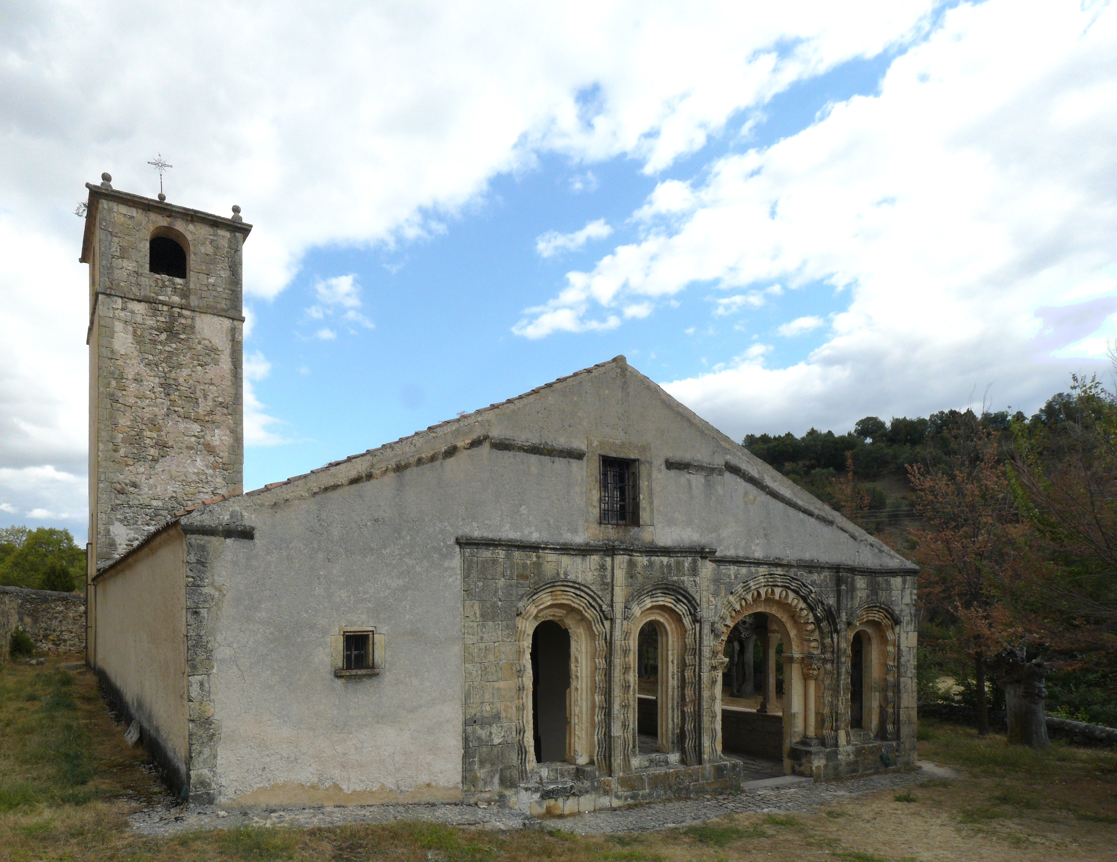 View of the church of San Juan Bautista (St. John the Baptist) at Revilla de Orejana, Segovia (Spain).